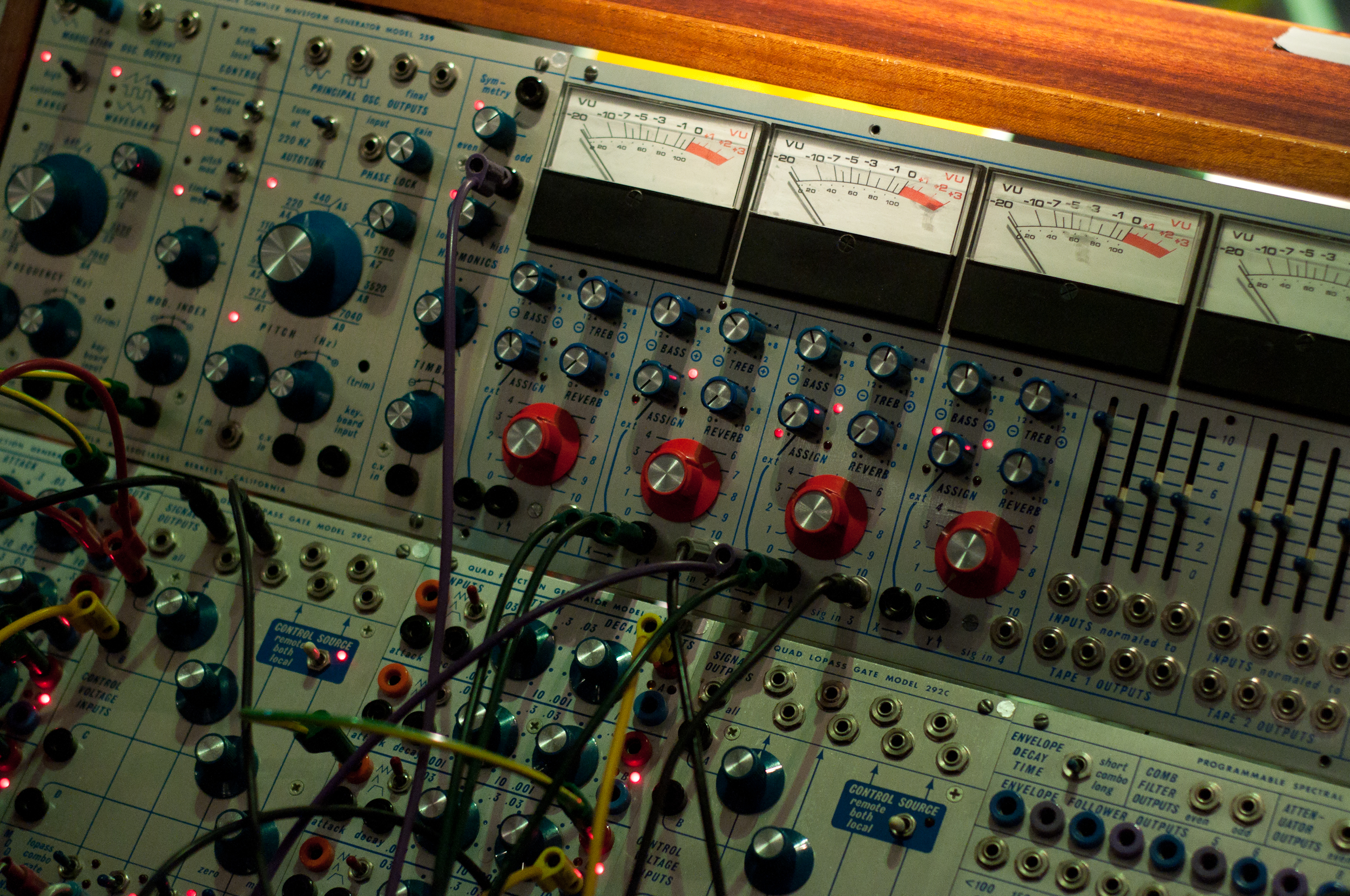 Buchla 200 series Electric Music Box upper 259 Programmable Complex Waveform Generator 227 System Interface lower 292c Quad Lopass Gate 281 Quad Function Generator 296 Spectral Processor DSC_0006 References EMS brings the Buchla synthesizer to Tekniska museet!. EMS Elektronmusikstudion (a part of Swedish Performing Arts Agency). "EMS will for the first time ever take the legendary Buchla modular system out of the studio to show it at Tekniska museet on Sunday the 6:th of November from 12 to 16. / Tekniska museet is closing its space exhibition "A space adventure" and celebrates this with a special event that is all about analog modular synthesizers and their sounds in a fitting environment. / Bring your friends and family to experience a Sunday full of futuristic visions of the sixties! / Link to Tekniska museet press release (in Swedish): Analoga syntar fyller rymden med ljud (in Swedish) (press release). Tekniska museet (2010-10-27). Archived from the original on 2010-11-07. "Tid: 6 november 12-16 / Plats: "Ett Rymdäventyr" på Tekniska museet, Museivägen 7"